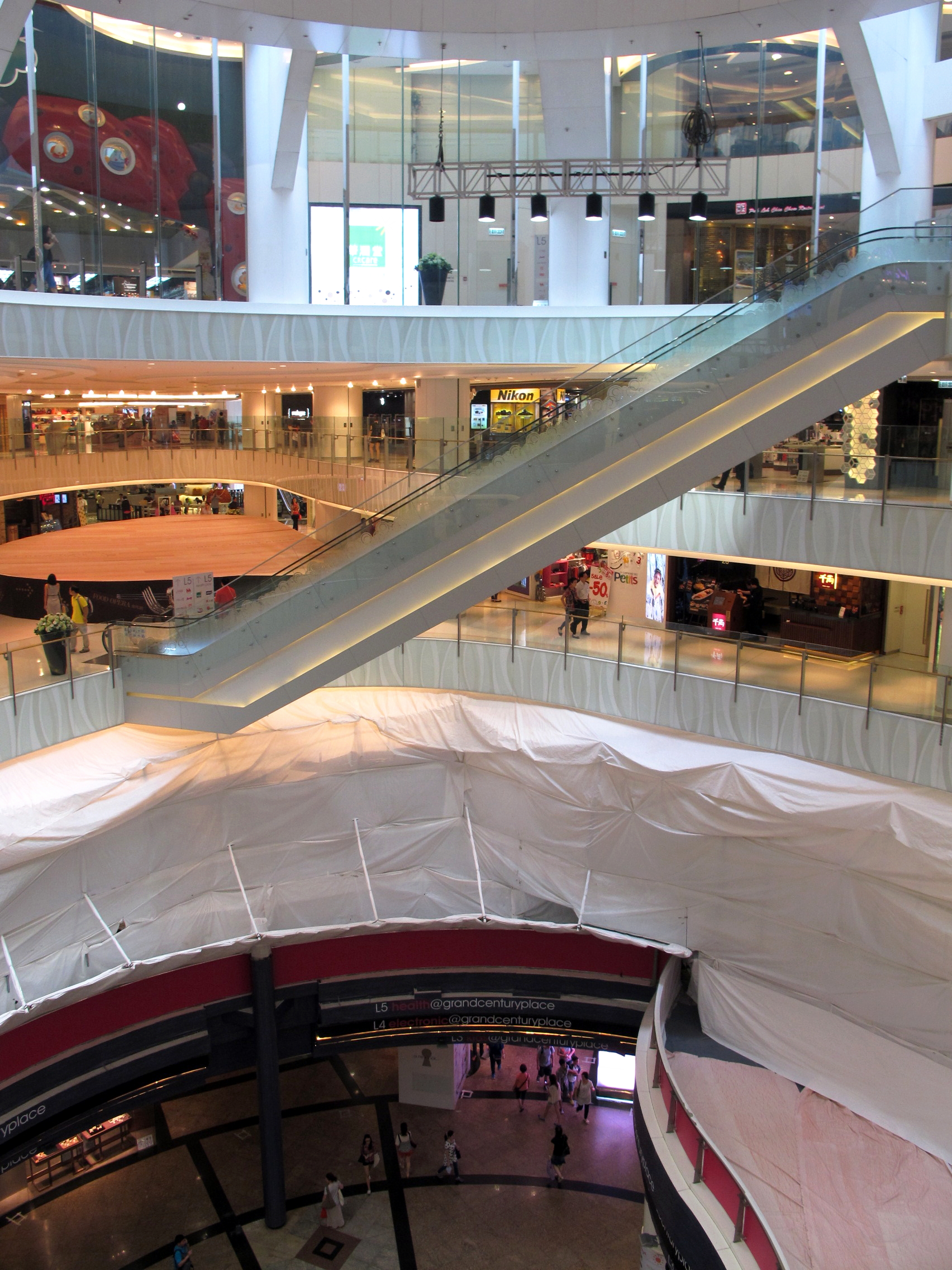 Grand Century Place Atrium